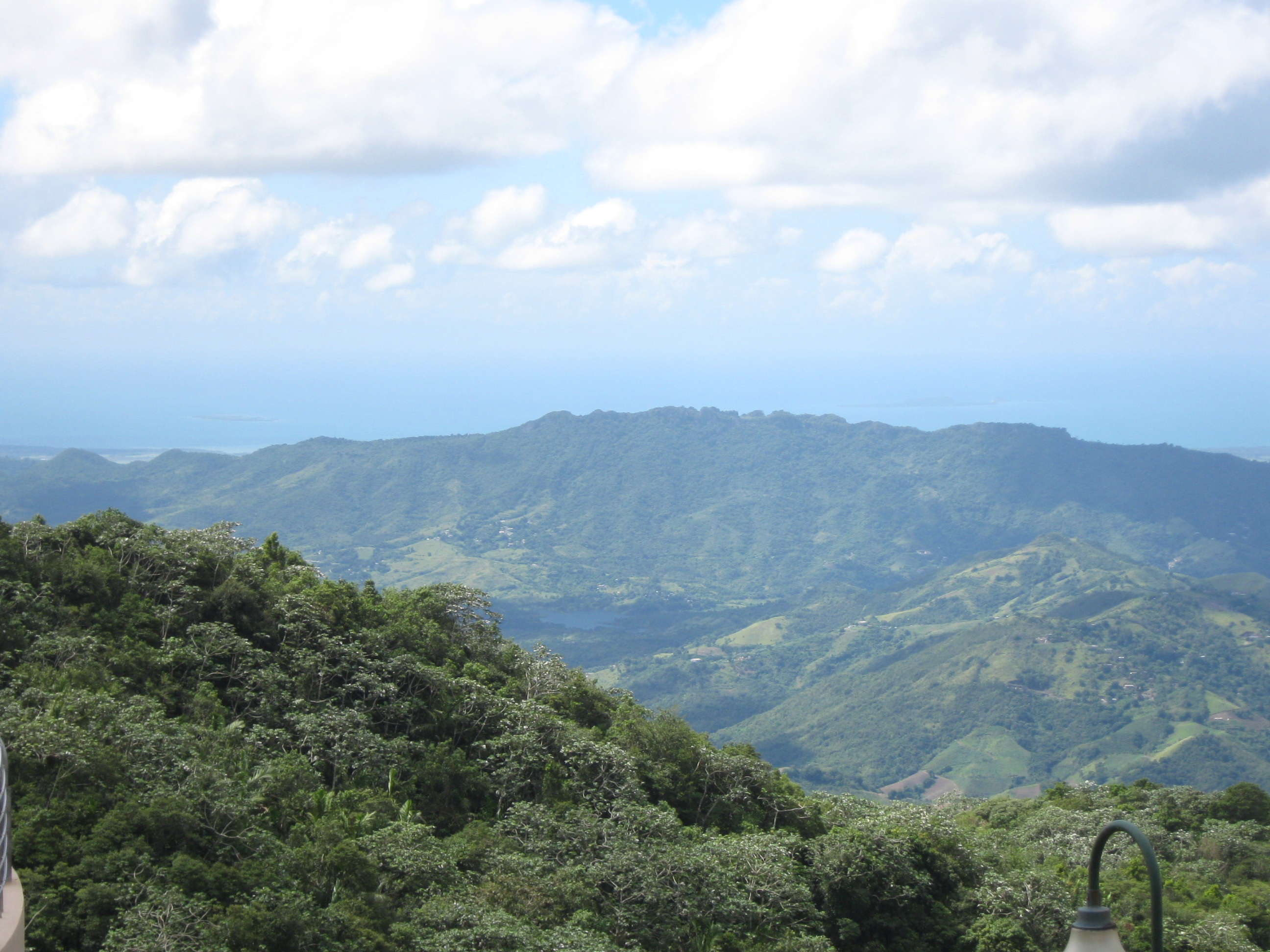 Cordillera Central of Puerto Rico from Mirador (Lookout) Villalba-Orocovis